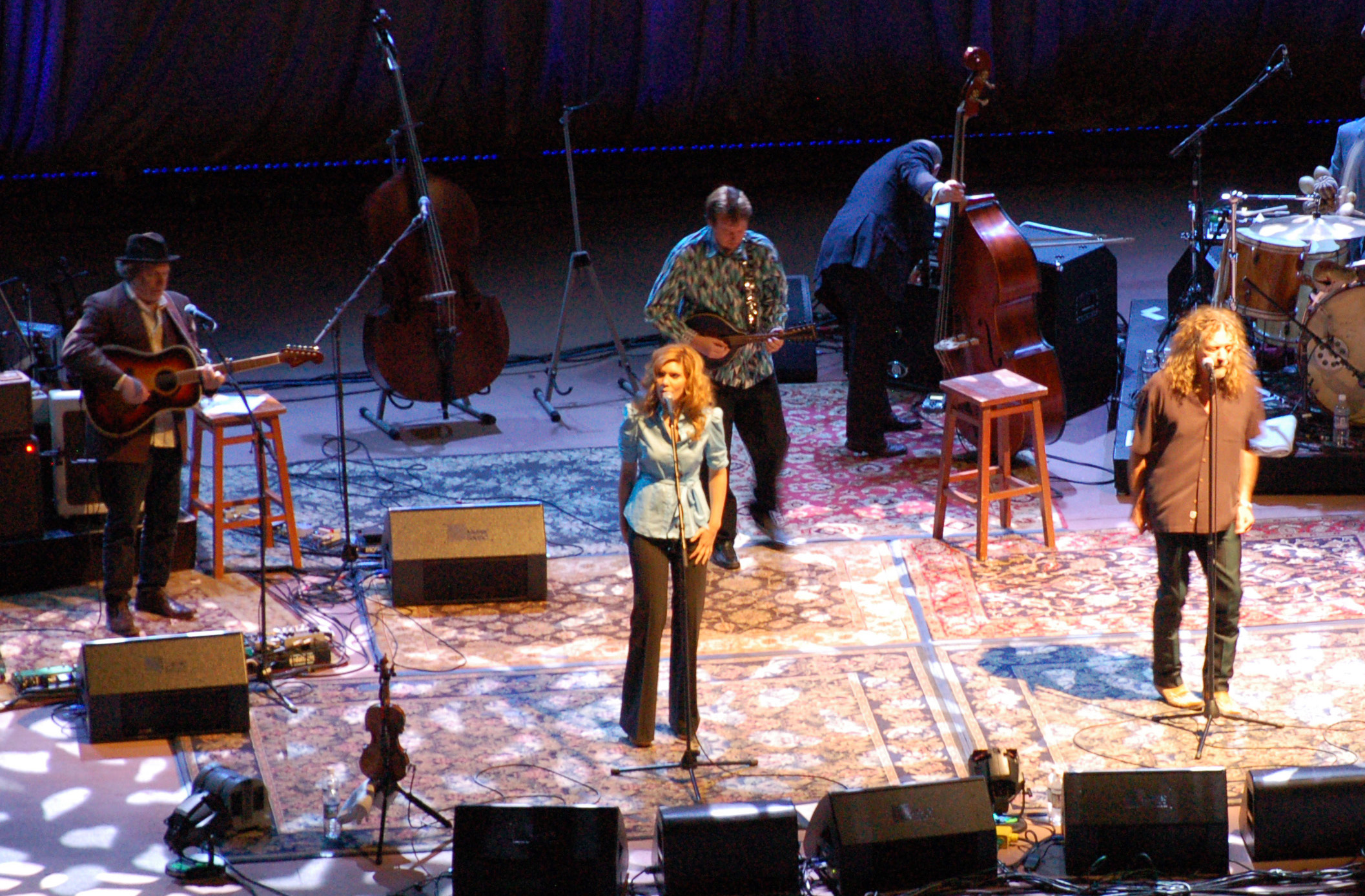 Alison Krauss and Robert Plant perform "The Battle of Evermore" at Red Rocks Amphitheatre